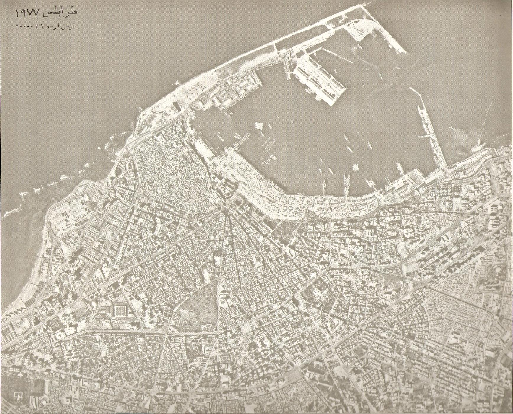 Air view of downtown Tripoli.